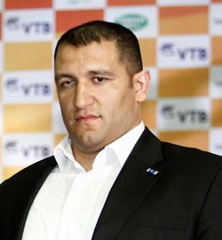 Famous Azerbaijani paralympic judoka Ilham Zakiyev